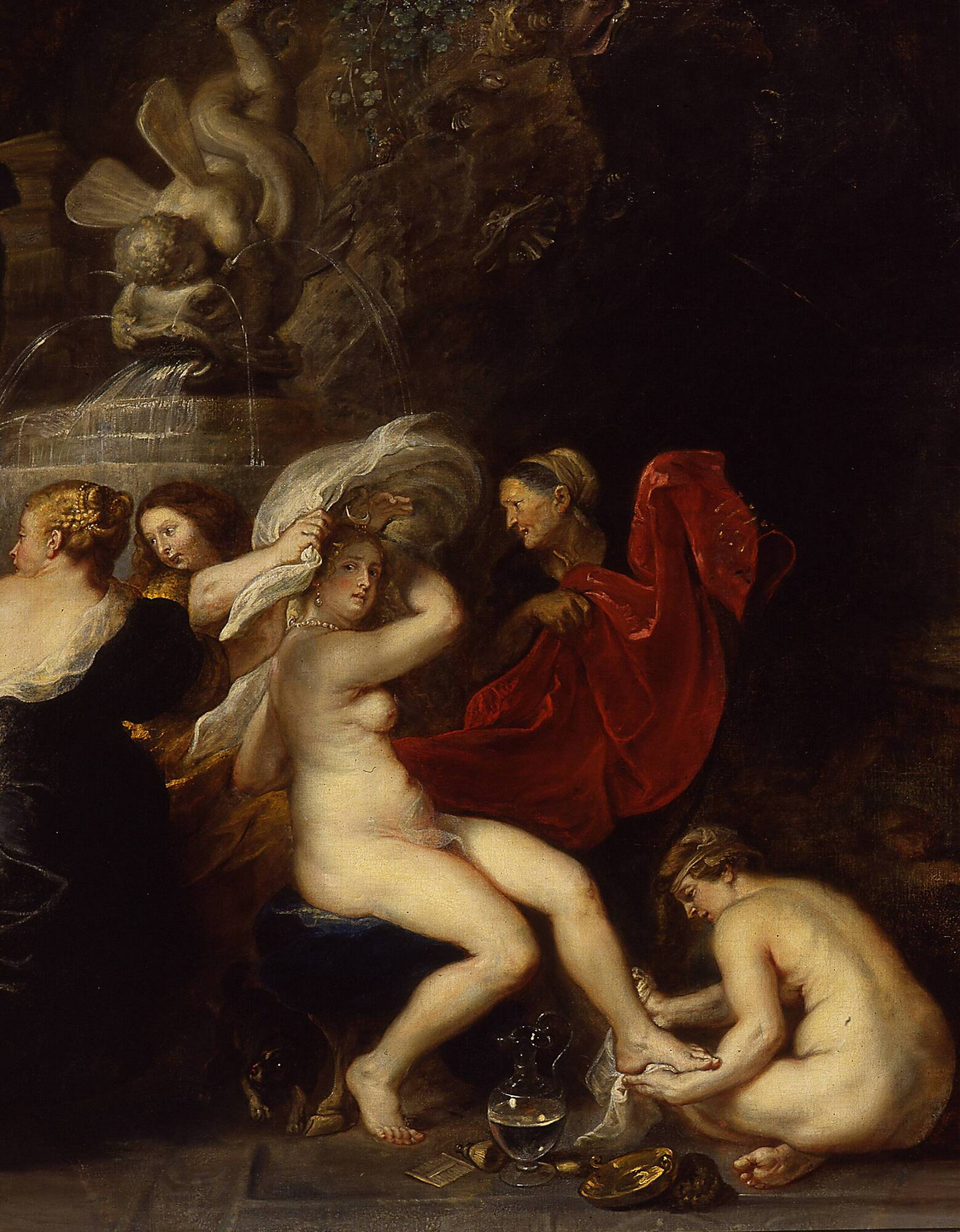 The Bath of Diana. Fragment of a larger canvas. Based on a painting by Titian.